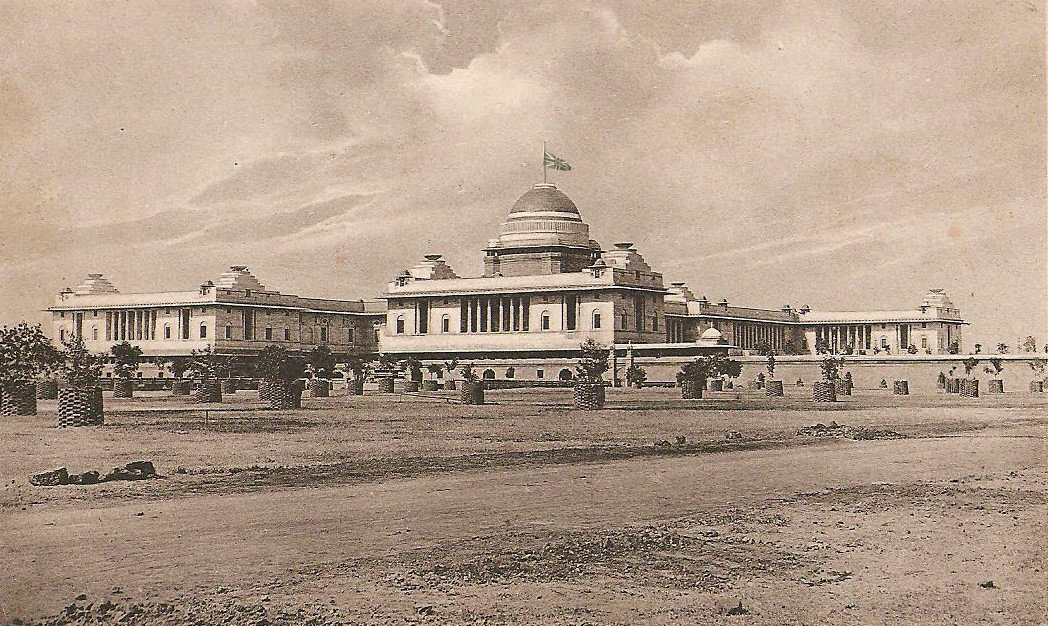 An old photo of the Viceroy's House (Rashtrapati Bhavan). Since this photo is more than 100 years old, the author has deceased and is of a public property, it can be used by anyone and anywhere.